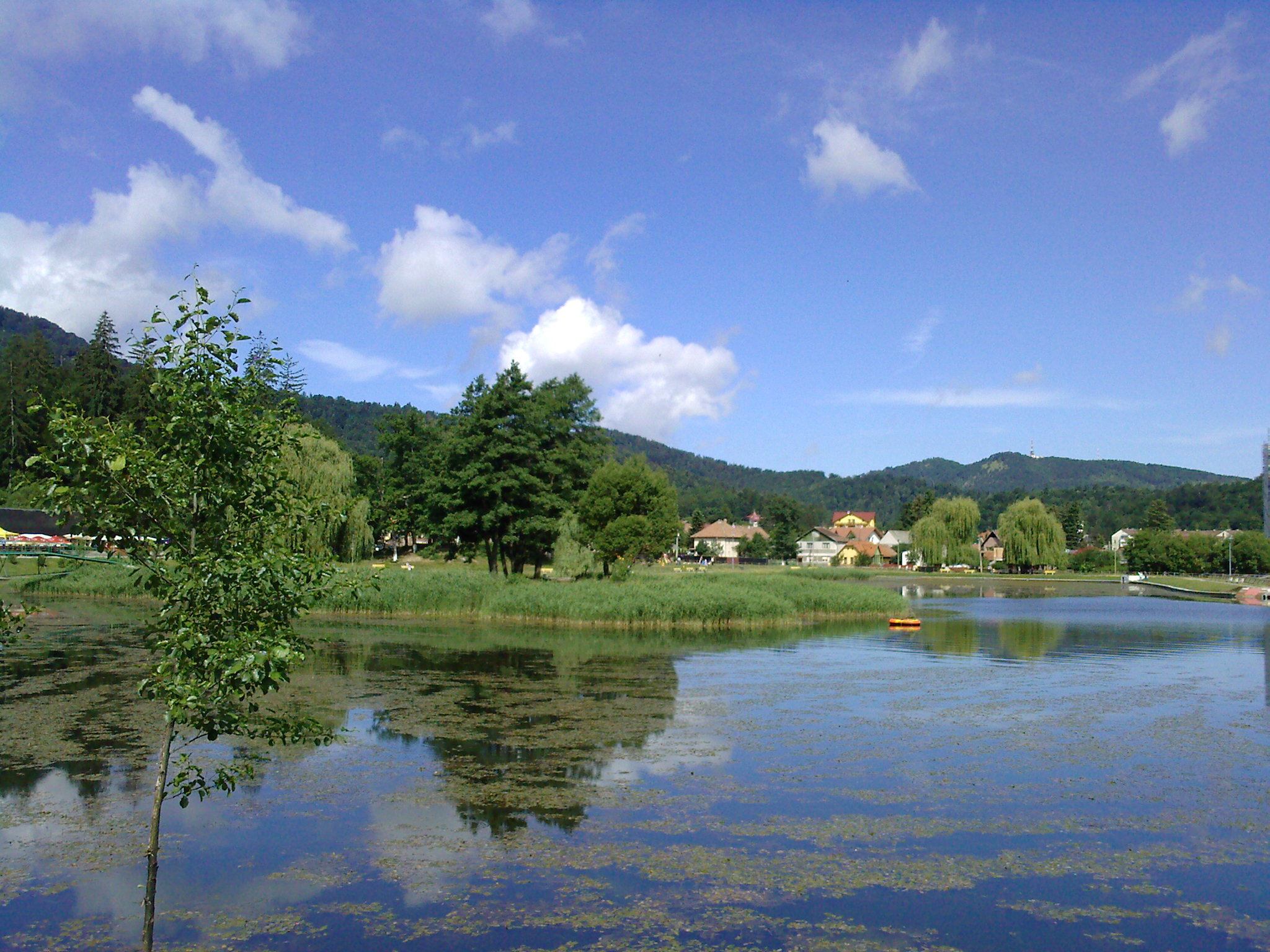 Lake "Noua" of Braşov, Romania